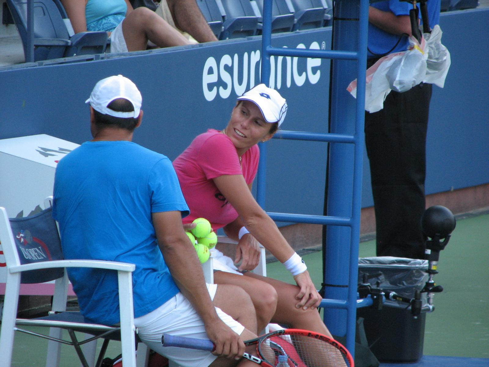 Lepchenko practicing at the 2015 US Open.